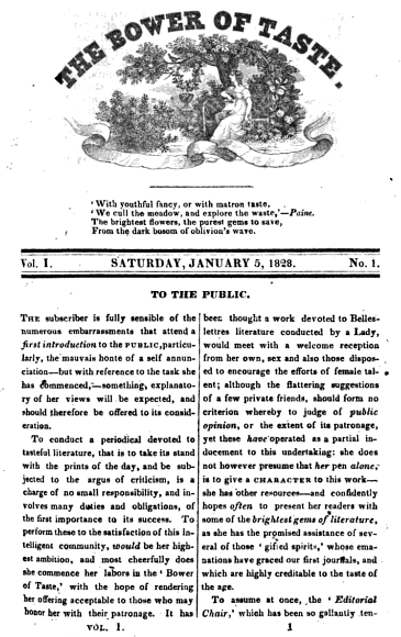 From: Bower of Taste (Boston: Dutton & Wentworth, Exchange St., 1828)